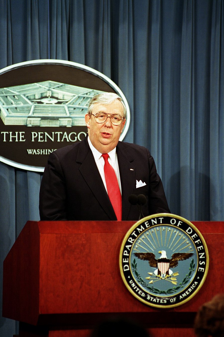 Secretary of the Air Force James Roche responds to a reporter's question concerning his role in the management of the Department of Defense during a Pentagon press briefing on June 18, 2001.